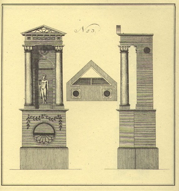 Design for heating stove with Apollo decoration. Model No. 3 in the 1811 cataloque "Tegninger af Næs Iernverks Kakelovne ved Henrik Meldahl".